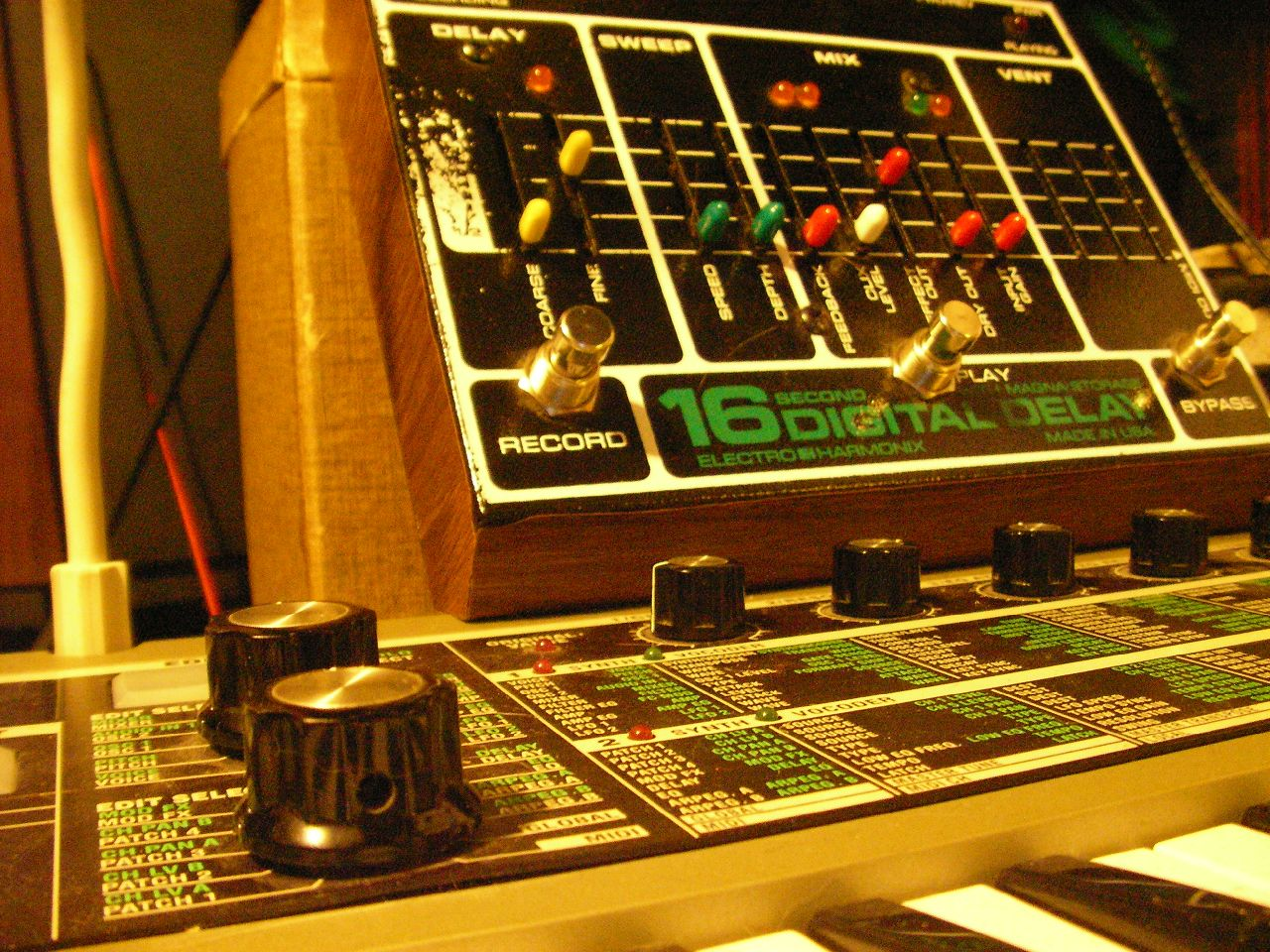 SANY0042trouserGear